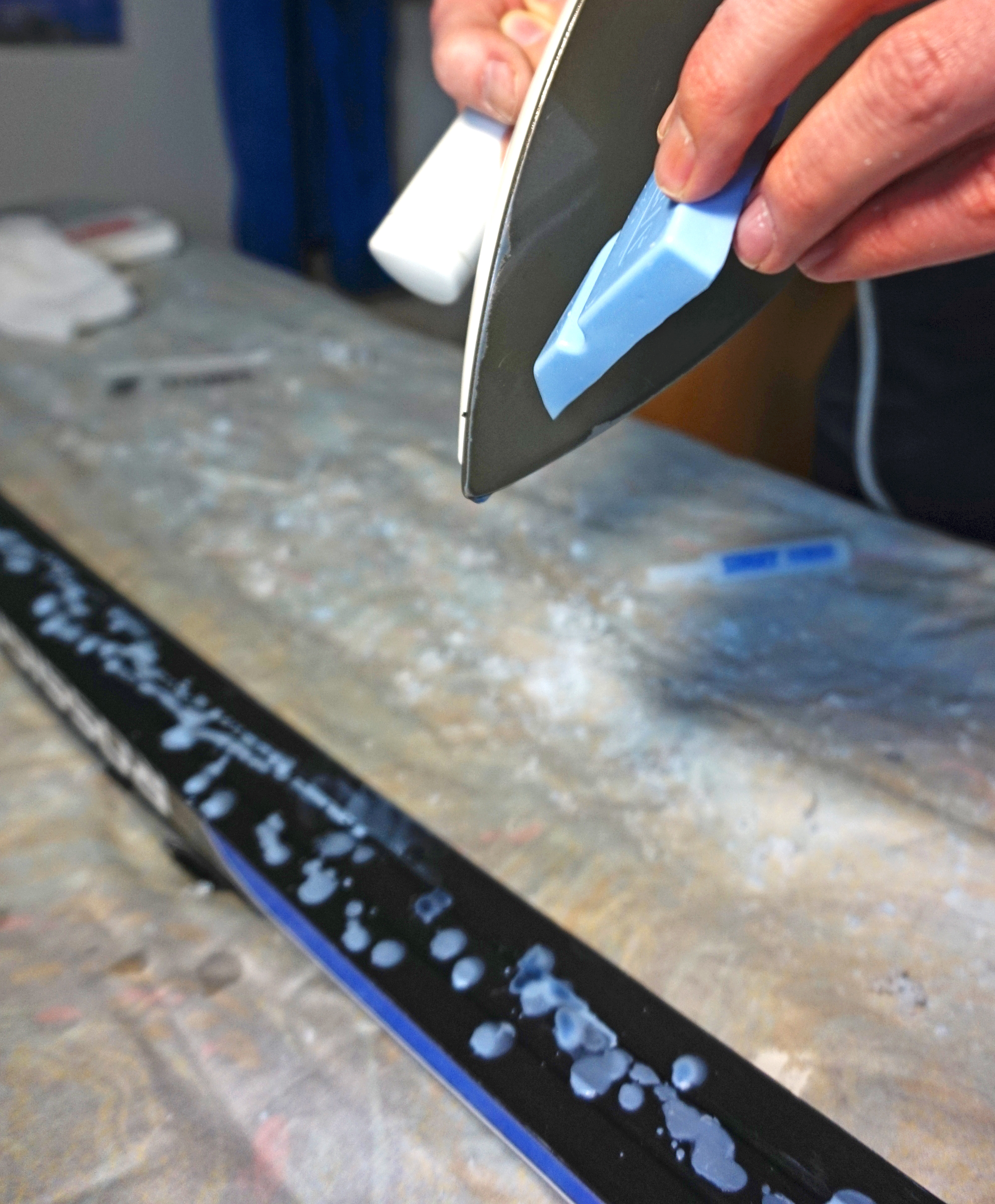 Melting ski wax on ski bottom with an iron.